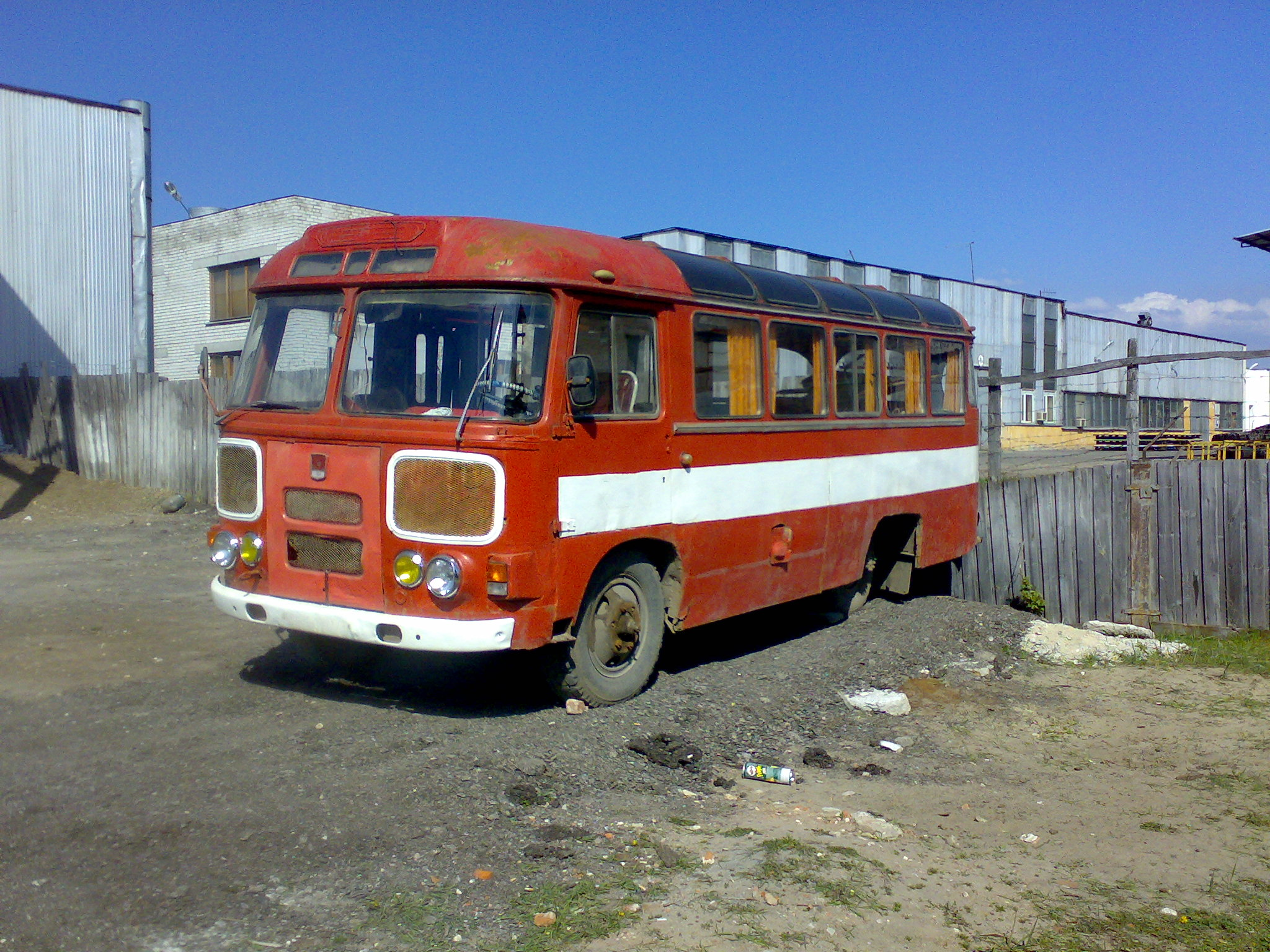 PAZ-672